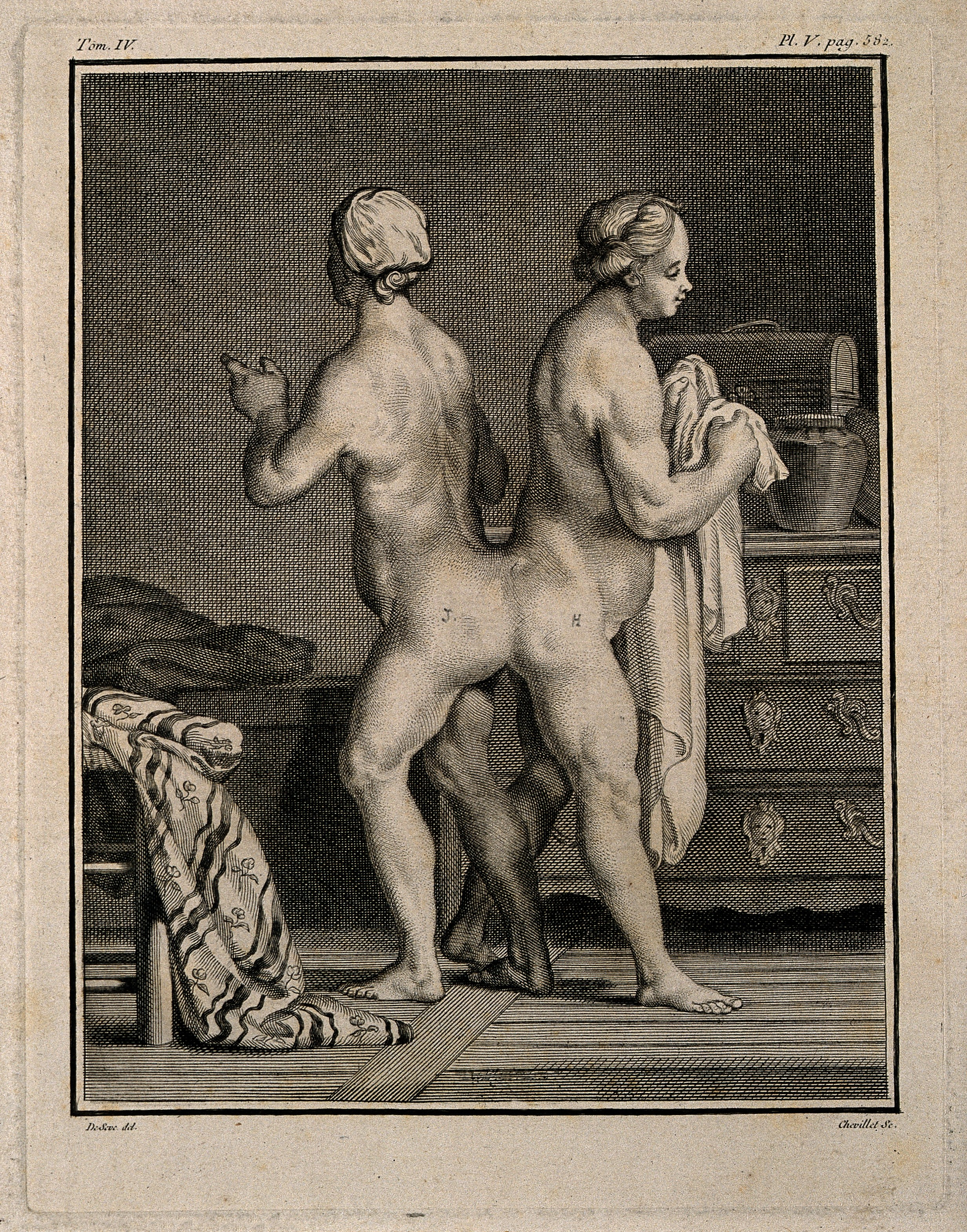 Iconographic Collections Keywords: Jacques de Sève; Juste Chevillet; hbelaene and judith, 1701-1723; siamese twins; Hélène and Judith; portrait prints; birth defects; etchings